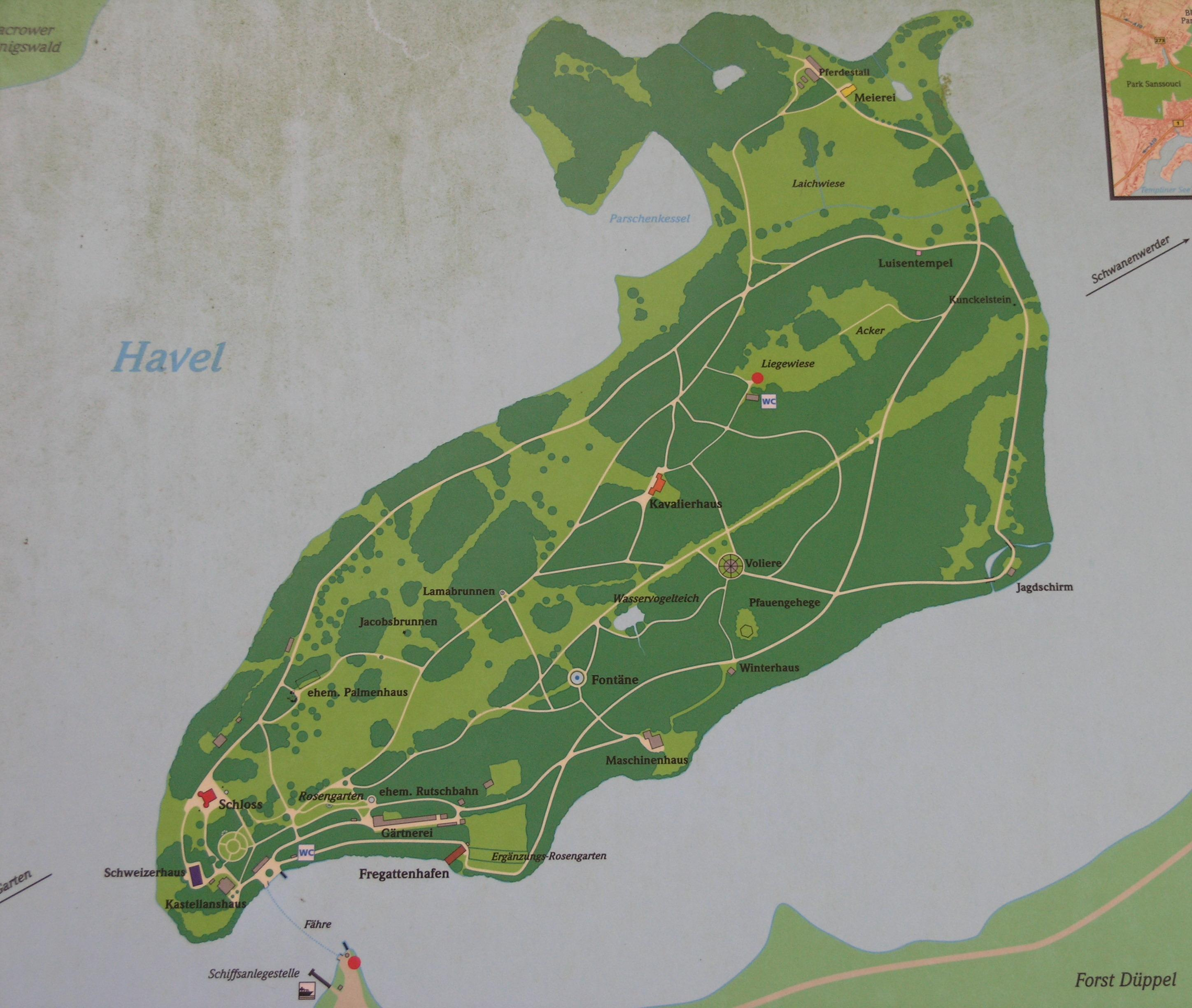 Pfaueninsel Map